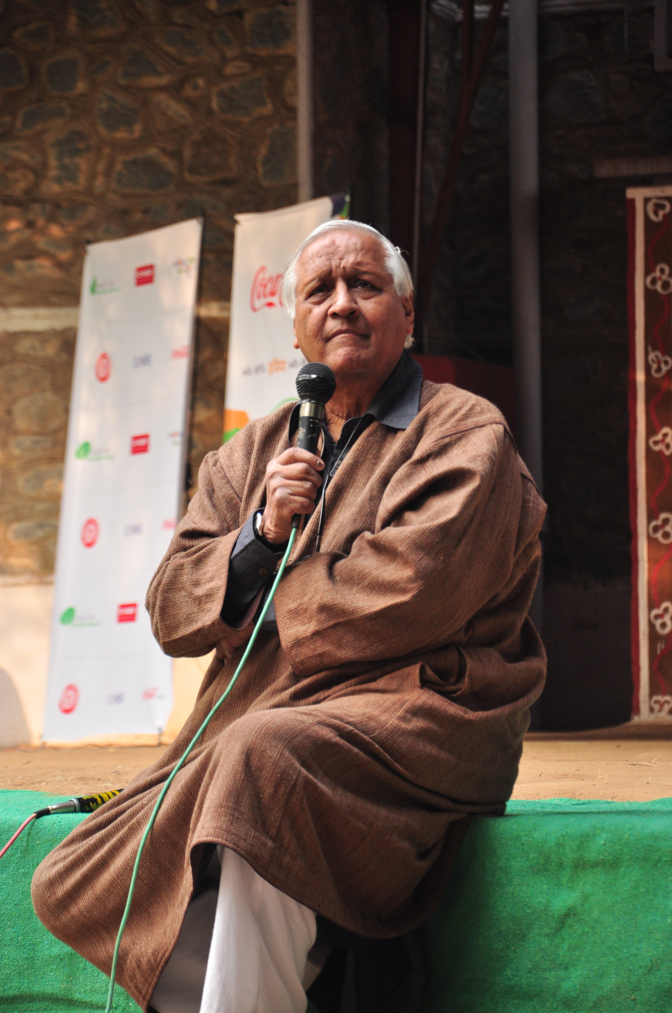 xdfdbd